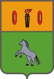 Coat of arms of Gavrilov Posad, Ivanovo Oblast (1989).